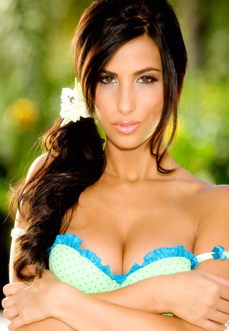 American model Jaime Hammer.